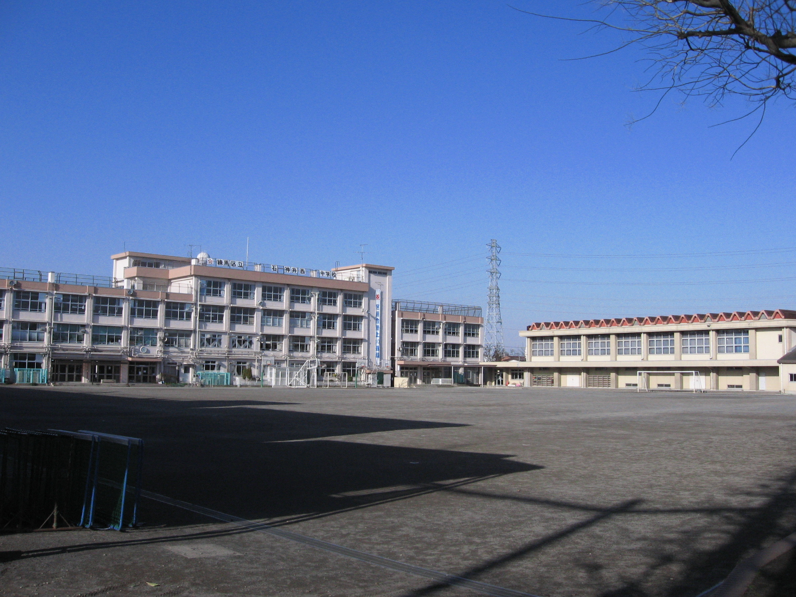 Shakujii-nishi junior high school Nerima,Tokyo.